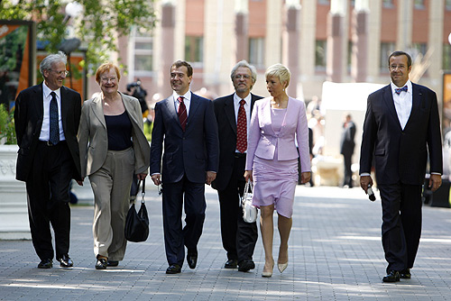 KHANTY-MANSIYSK. At the City of Masters ethnic exhibition.